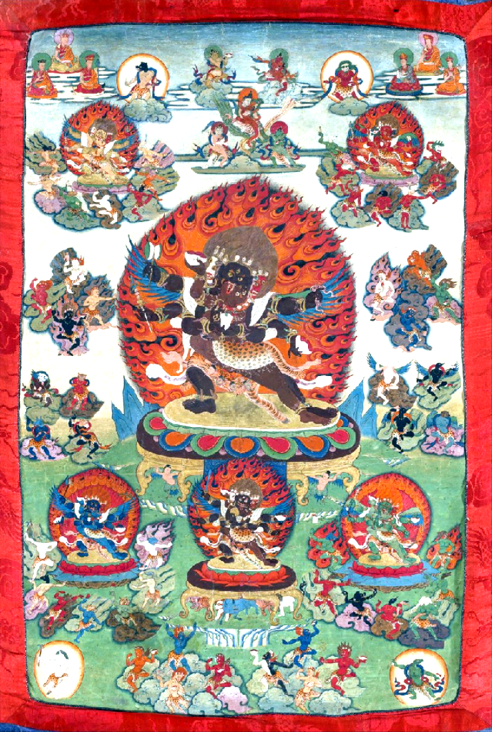 Tibetan thangka from 18th century. Middle figure is Mahottara Heruka, upper left figure is Ratna Heruka, upper right is Padma Heruka, lower center is Buddha Heruka, lower right is Karma Heruka, and lower left is Vajra Heruka. All of them have a consort. Surrounding these figures are the 58 wrathful deities. There is also a clear relationship between the deities of the Guhyagarbha Tantra and the various Tibetan Buddhist traditions of the Bardo Todal (Tibetan Book of the Dead). The forty-two peaceful and fifty-eight wrathful deities are the basis for the iconography depicting the subject of the 'Bardo' - Tibetan Book of the Dead.